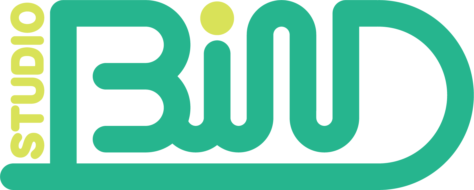 The logo of Studio Bind.